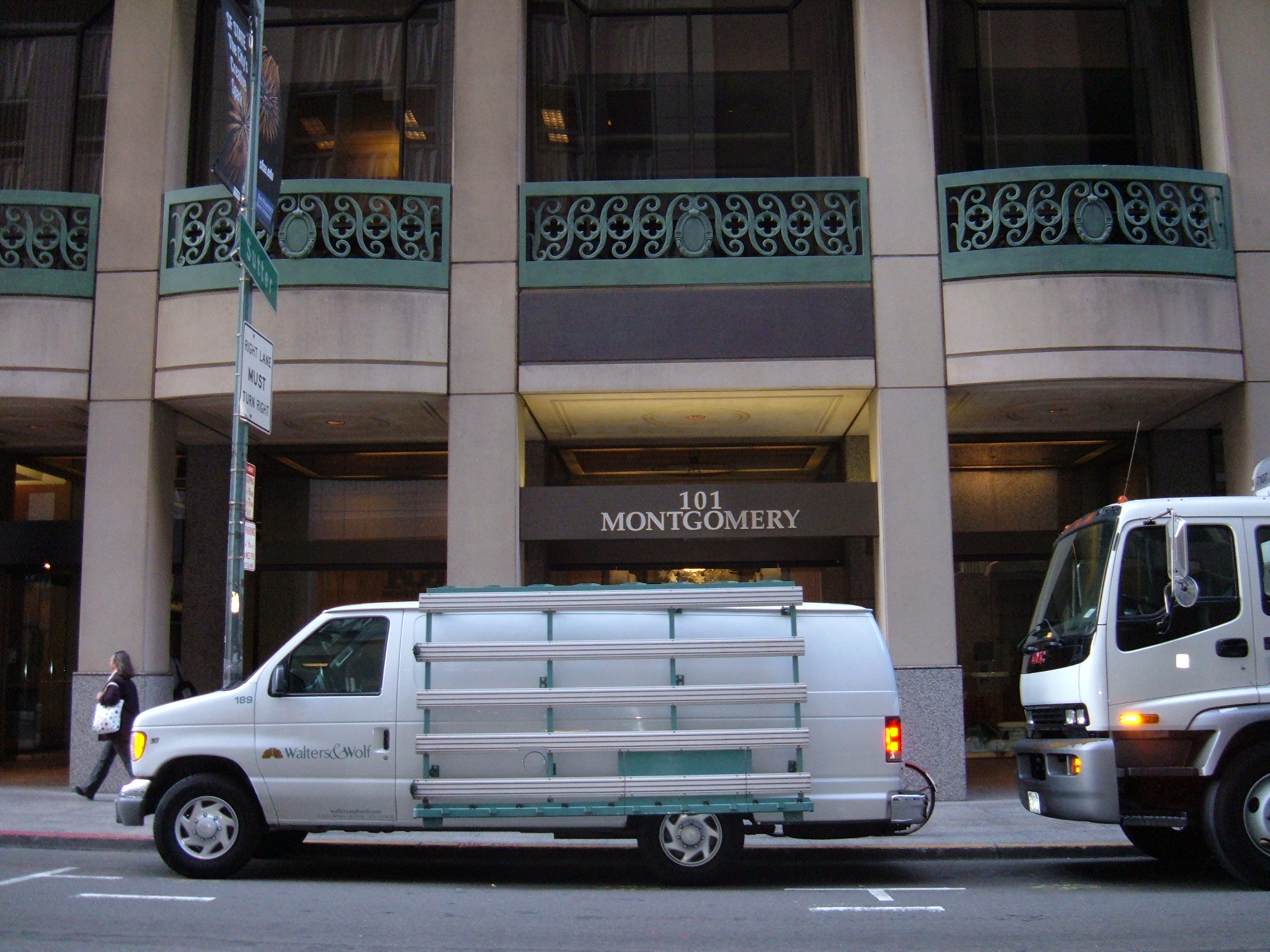 101 Montgomery Street in San Francisco, California.